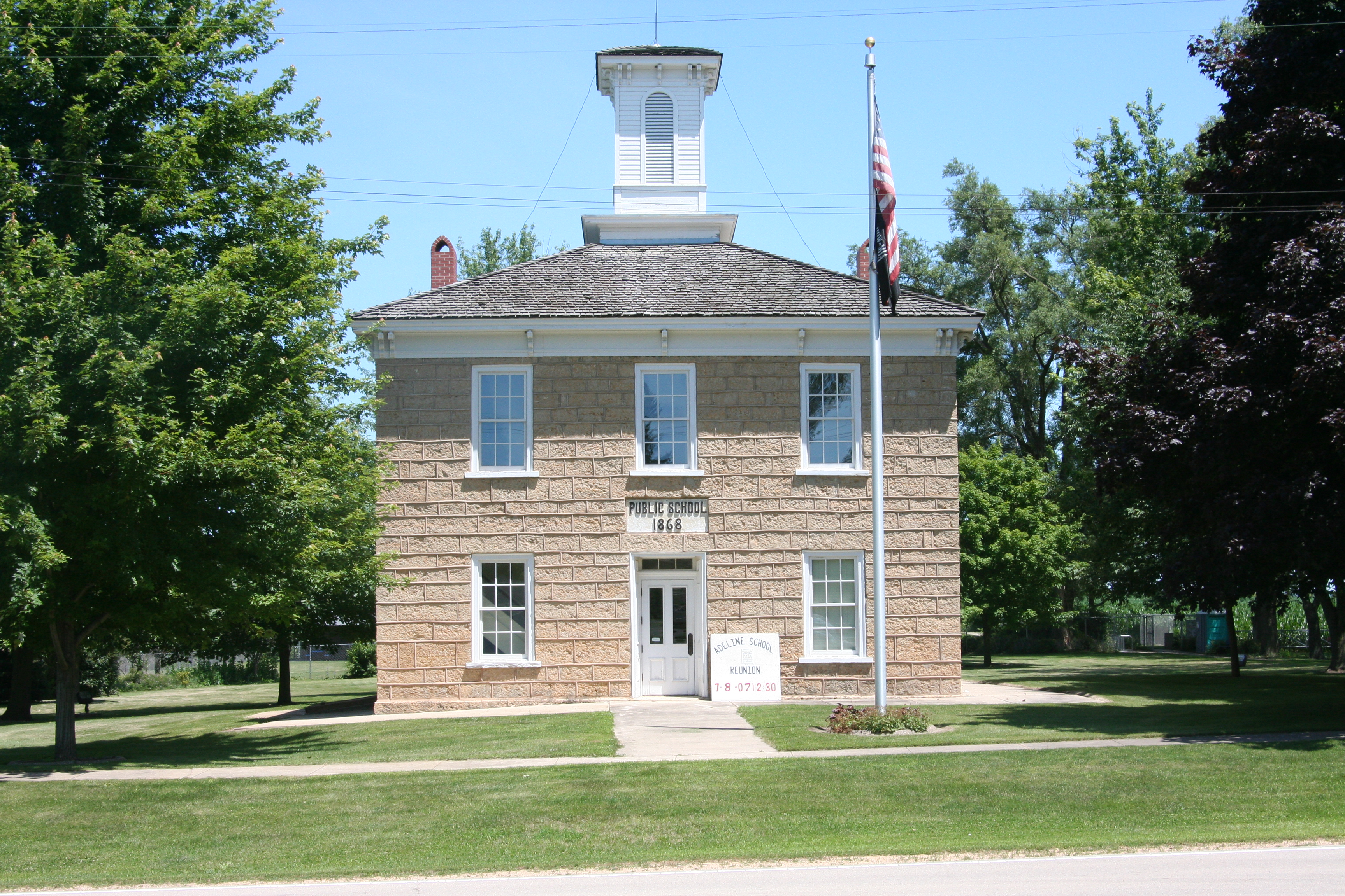 Picture of the Adeline 1868 school in Adeline, Illinois, USA.